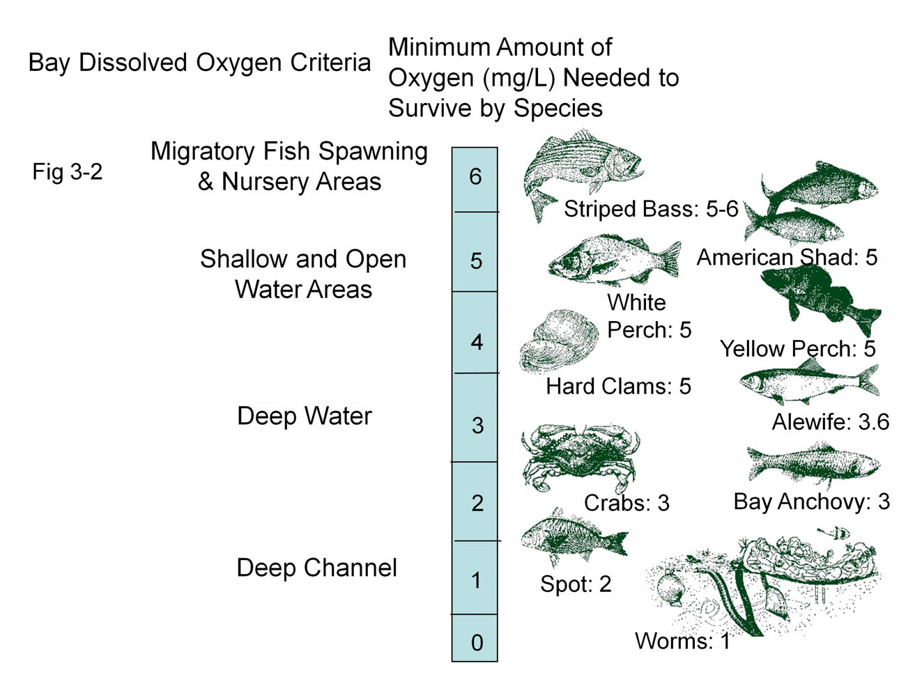 Dissolved oxygen concentrations (mg/L) required by different Chesapeake Bay species and biological communities.